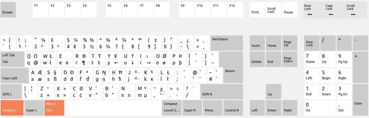 English United Kingdom Keyboard under Ubuntu